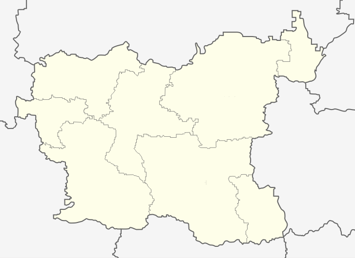 Blank map of Lovech Province, Bulgaria.